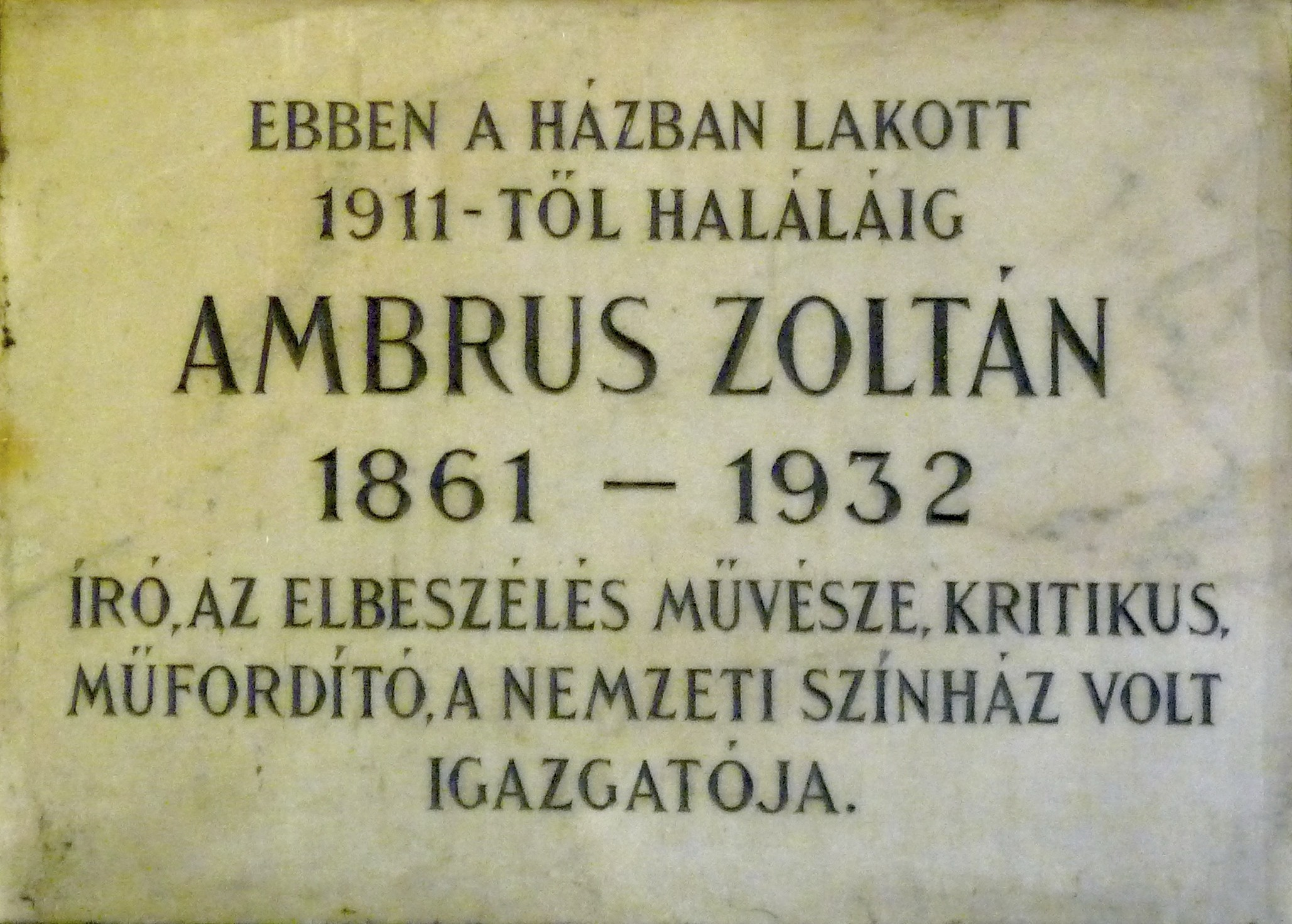 Zoltán Ambrus (writer) commemorative plaque in Budapest District VIII, Üllői Street No 36.